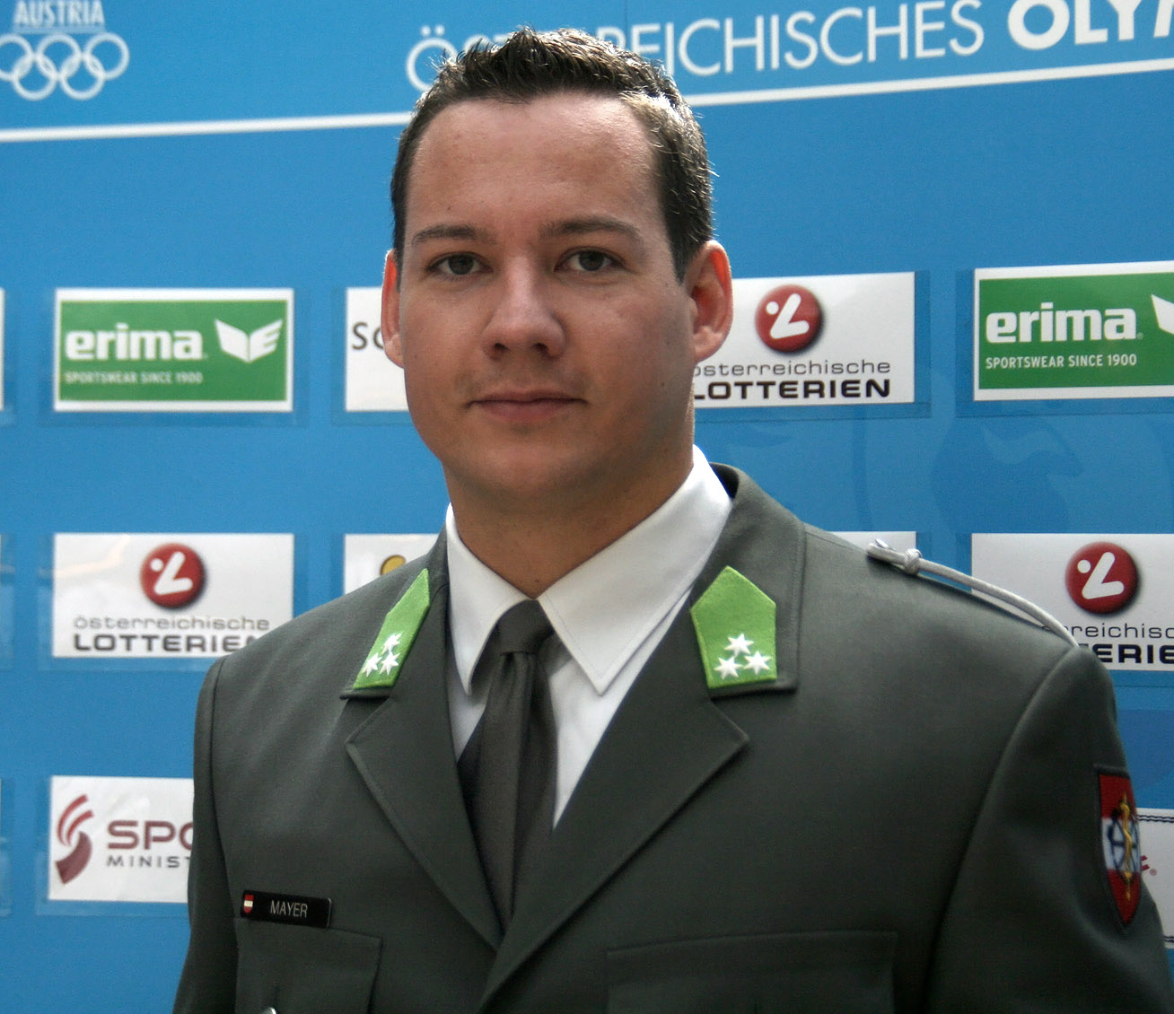 Discus thrower Gerhard Mayer at the hand-out of the Austrian teams official attire for the 2012 Summer Olympics in London (Marriott, Vienna).